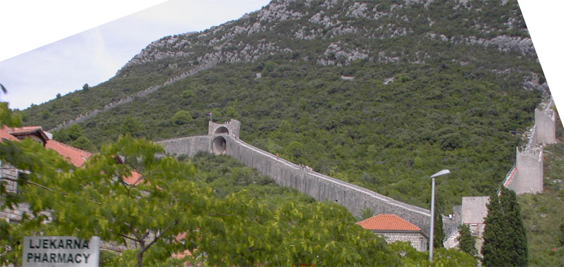 Taken by me (zivan56) and released under CC SA The fortifications at Ston.